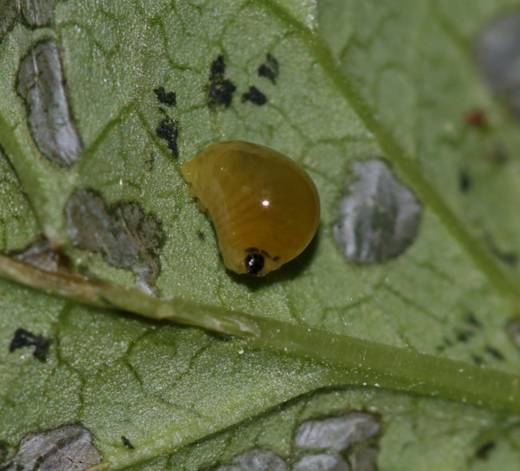 Bolton Muir wood, East Lothian, Scotland